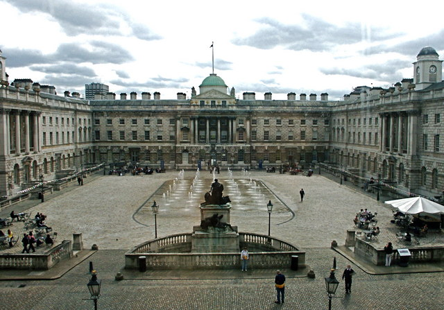 The courtyard of Somerset House, Strand, London At Christmas, this space has sometimes been used as a temporary ice rink for the public.